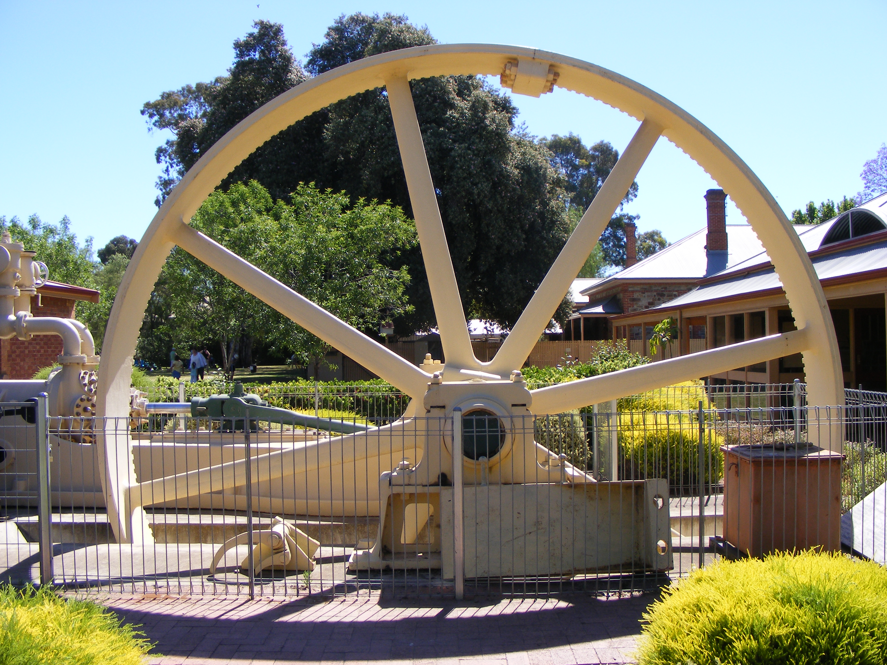 6m (20ft) flywheel, weighs 15 tonnes. Used at Gepps Cross, Adelaide, South Australia Meatworks from 1924 to 1984. The flywheel drove a compressor running the refridgeration. Initially run by steam power then, from 1936, by diesel electric power. Now located at Enfield history museum, Sunnybrae Farm in Regency Park, South Australia.